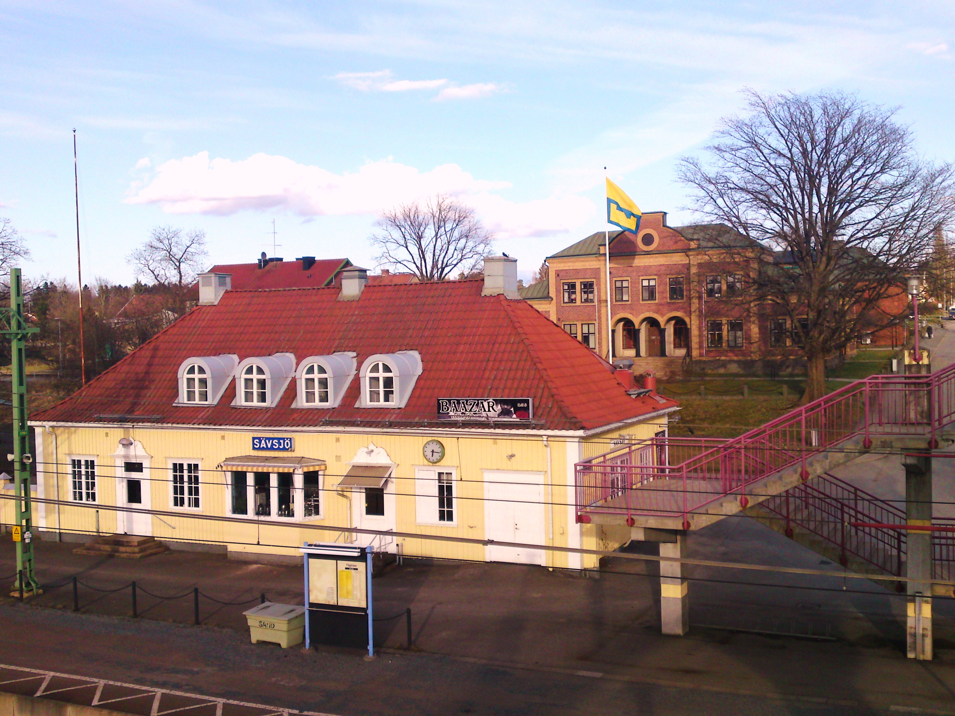 Sävsjö station with Sävsjö county hall in the background.